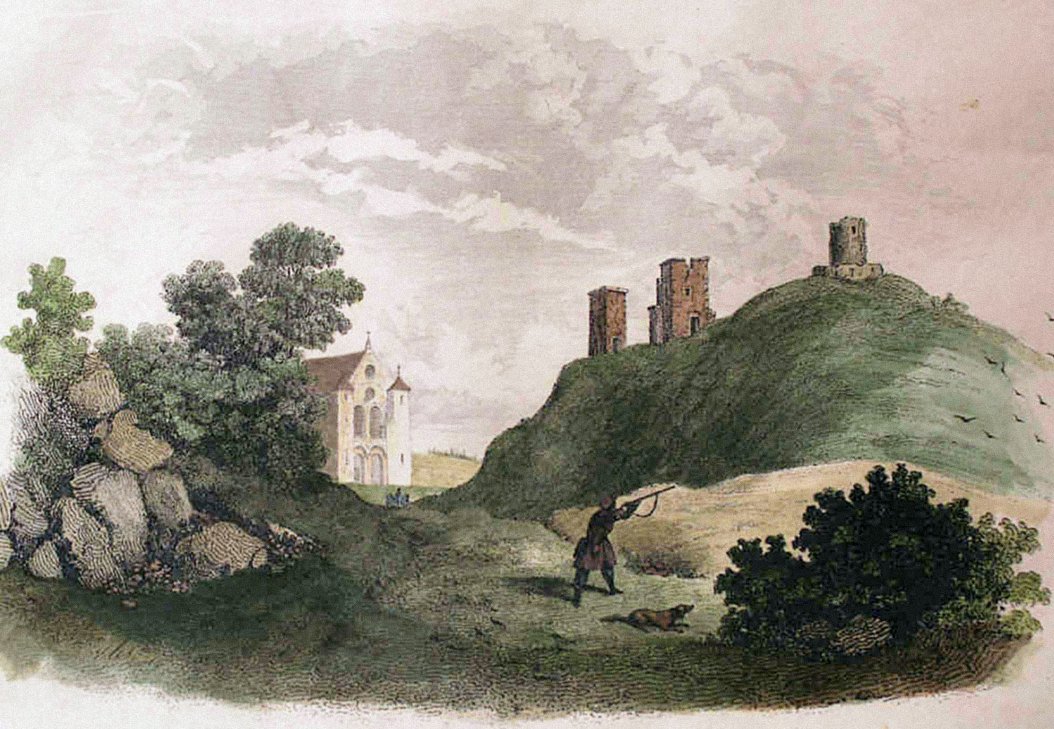 Navahradak at the beginning of 19 century